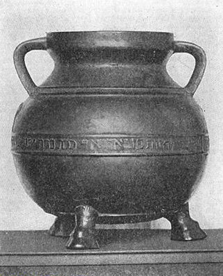 Picture taken on behalf of the Jewish Encyclopedia (1901-1906) of the Bodleian Bowl, a medieval English Jewish artifact alleged to be connected to the 13th century French rabbi, Yechiel of Paris.